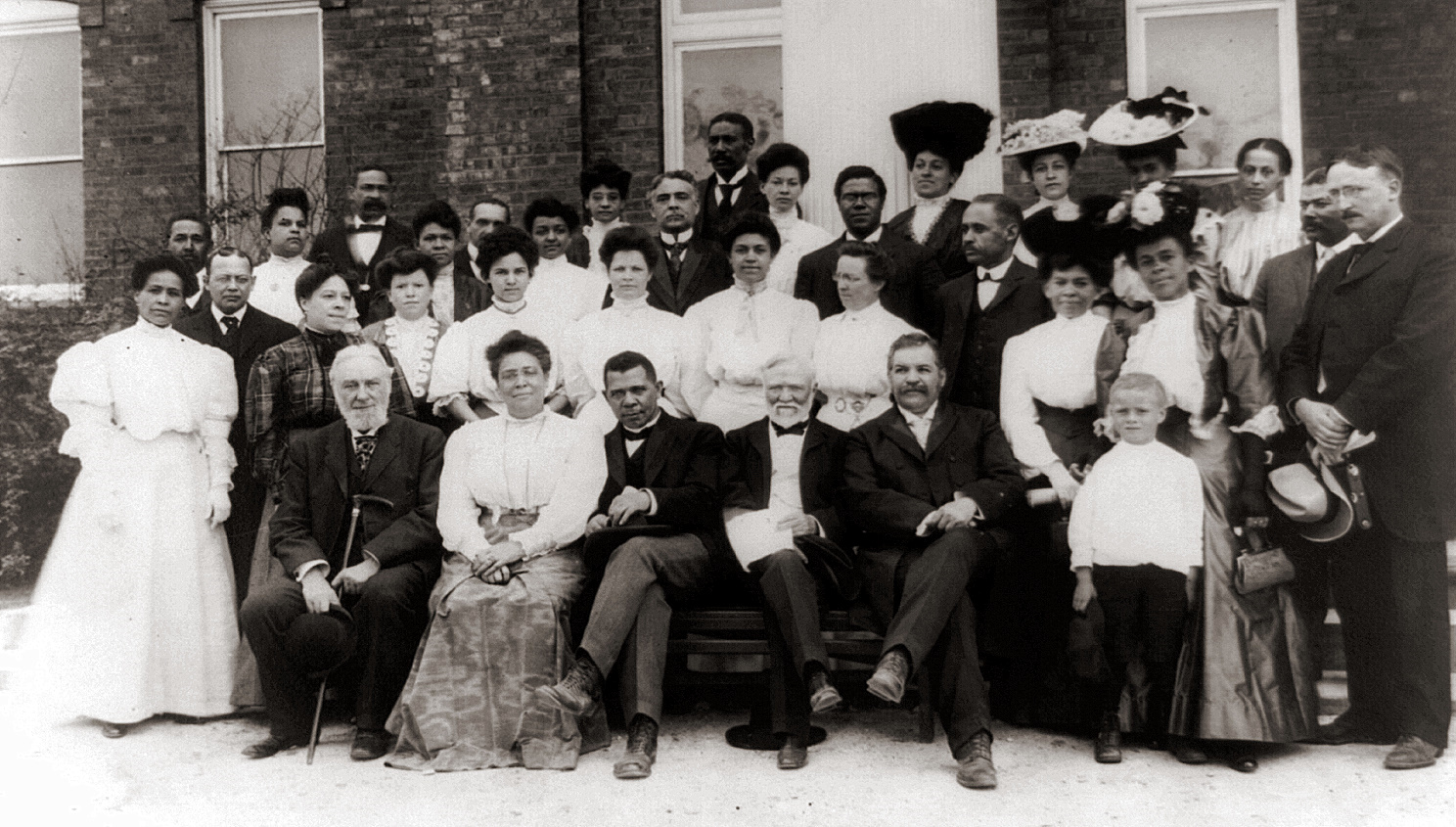 Andrew Carnegie (front row, center)and Robert C. Ogden (front row, far left) visiting faculty members of the Tuskegee Institute in Tuskegee, Alabama. Booker T. Washington and his wife Margaret James Murray are sitting between Carnegie and Ogden.